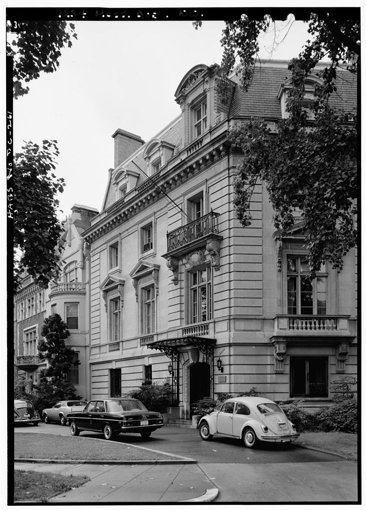 This semidetached limestone residence in the Louis XVI manner has two major facades (Massachusetts Avenue and Sheridan Circle). The structure covers most of the fan-shaped lot except for a small section which serves as a light well. The interior circulation and rooms which are designed about a central stair hall, as well as the combination of reflective surfaces and natural light, produce an illusion of greater space.